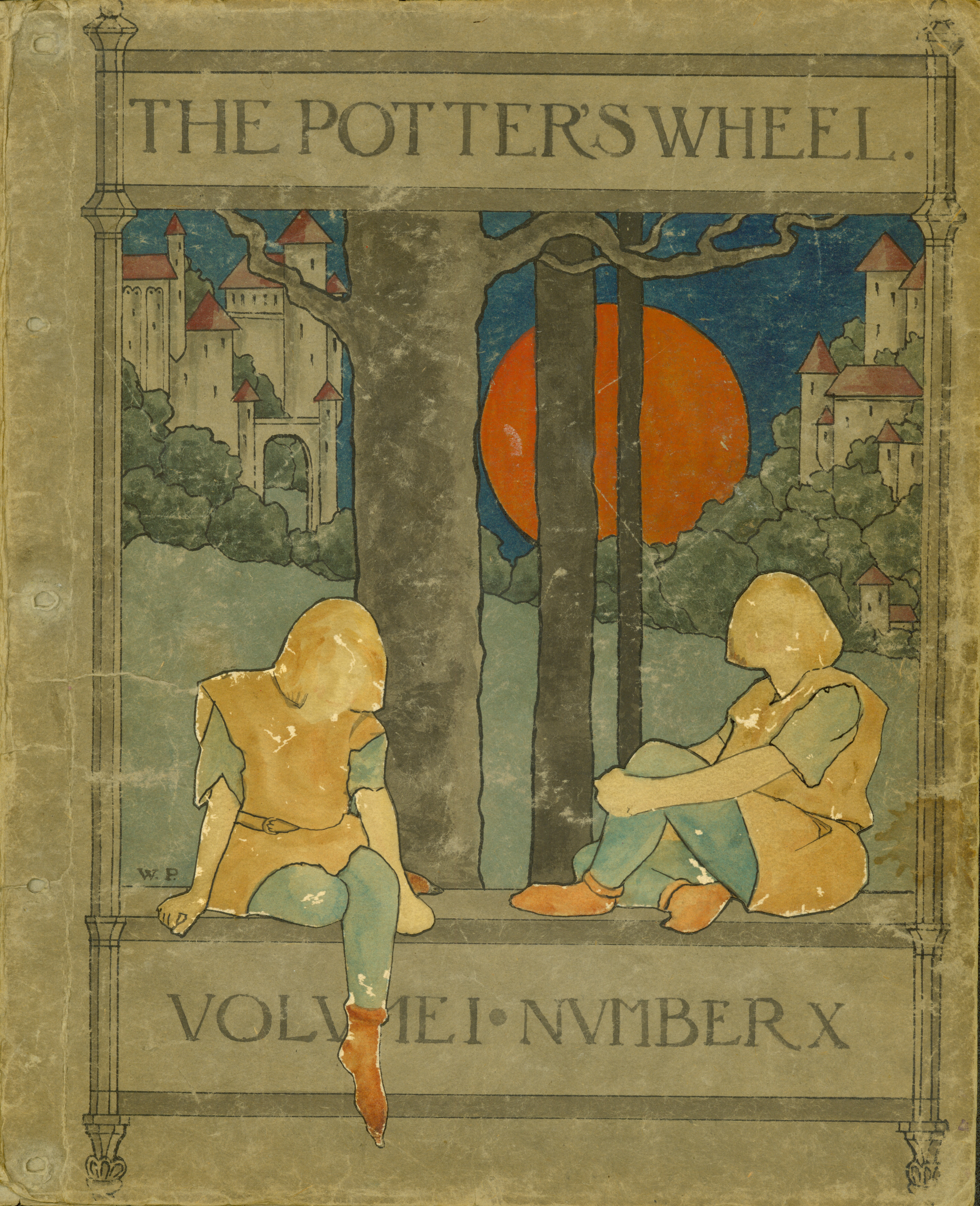 The cover drawn by Willamina Parrish shows two faceless medieval boys sitting next to trees with two castles in the background. Issue includes table of contents design, panel designs, and a poem by Willamina Parrish; a short story titled "Billy" by Celia Harris; a poem and translations of poems from the German by Sara Teasdale; photographic portraits of Caroline Risque by Grace Parrish; a short story titled "His Day Of Rest" by E. Wahlert; a translation of a German poem by Inez Dutro; a play titled "The Intruder" by Vine Colby; poems for children with illustrations by Caroline Risque; and a poem with an illustrating photograph of a girl reading by Caroline Risque and Willamina Parrish.Title:The Potter's Wheel, Volume 1, Number 10, August 1905